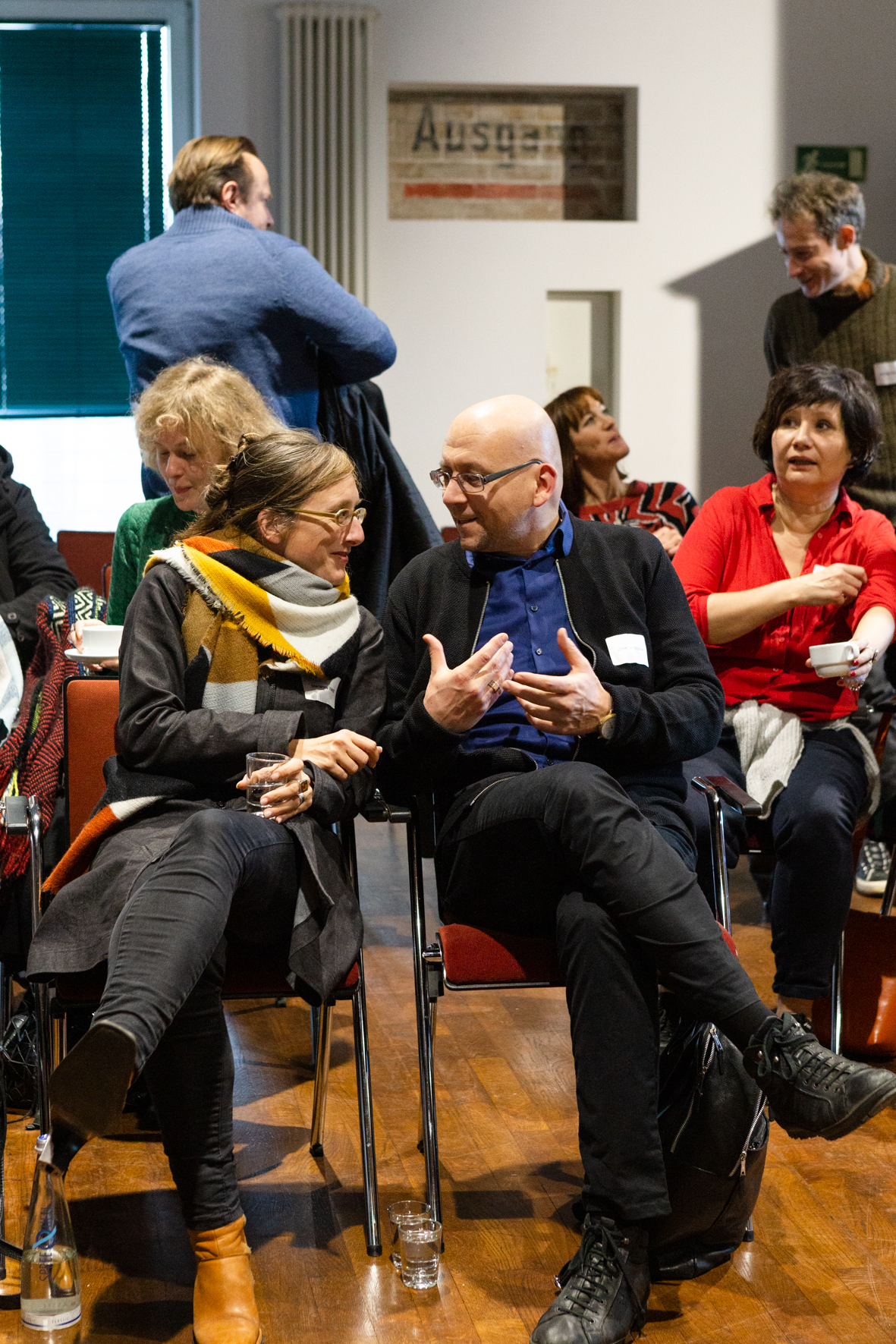 Christian Schiller und Co-Autorin Marianne Wendt auf der K18 Konferenz von Weiya Yeung